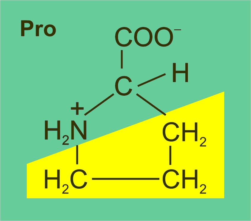 proline amino acid formula jpg